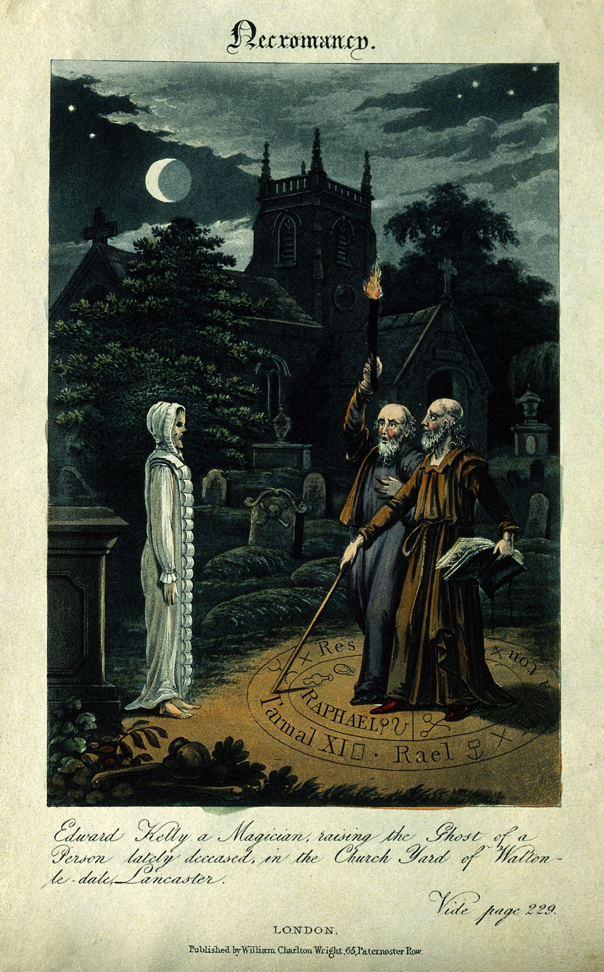 Edward Kelley. Coloured aquatint. Iconographic Collections Keywords: portrait prints; Edward Kelley; aquatints